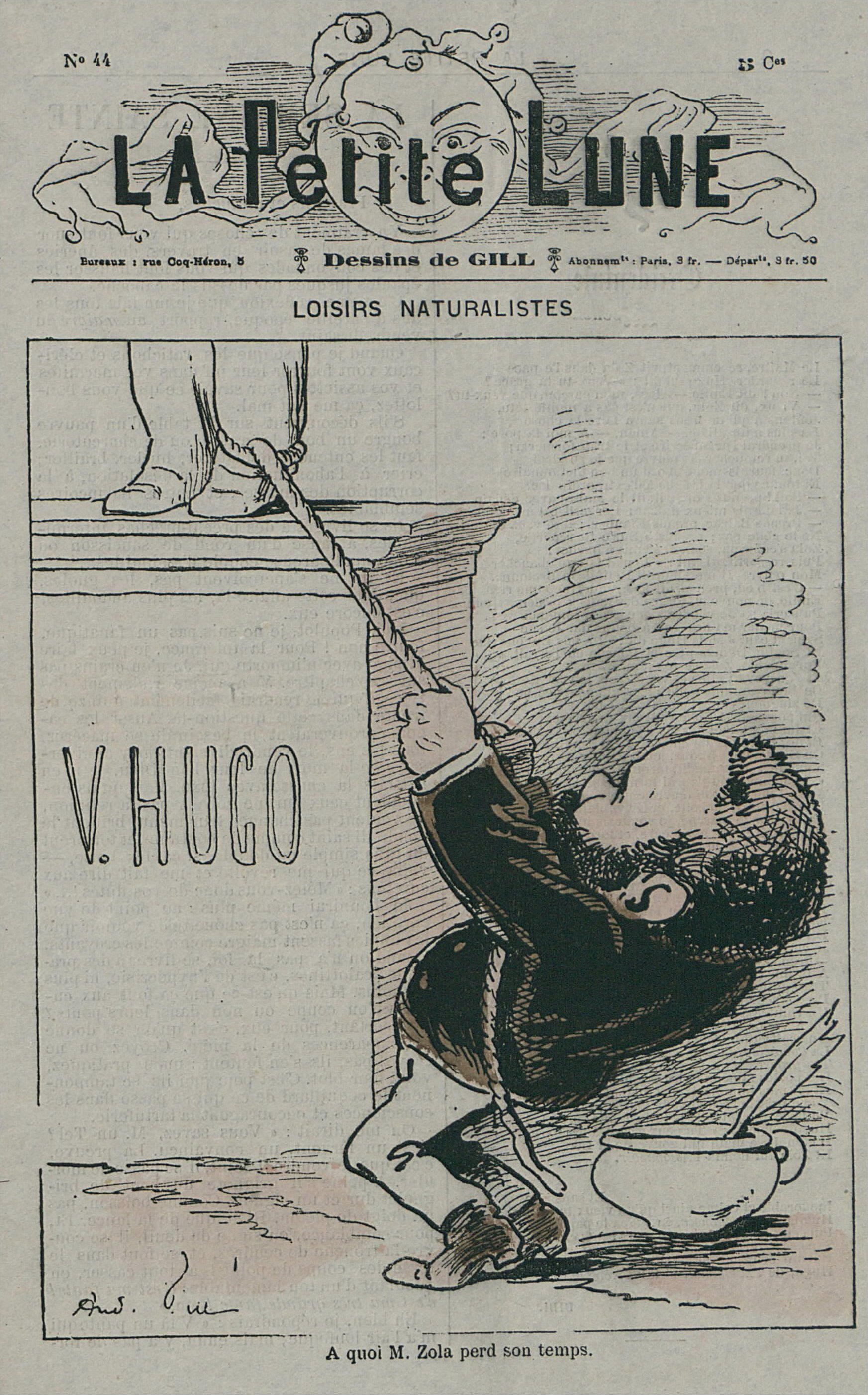 Caricature from La Petite Lune: Zola ineffectually attempting to pull a statue of Victor Hugo off its pedestal.